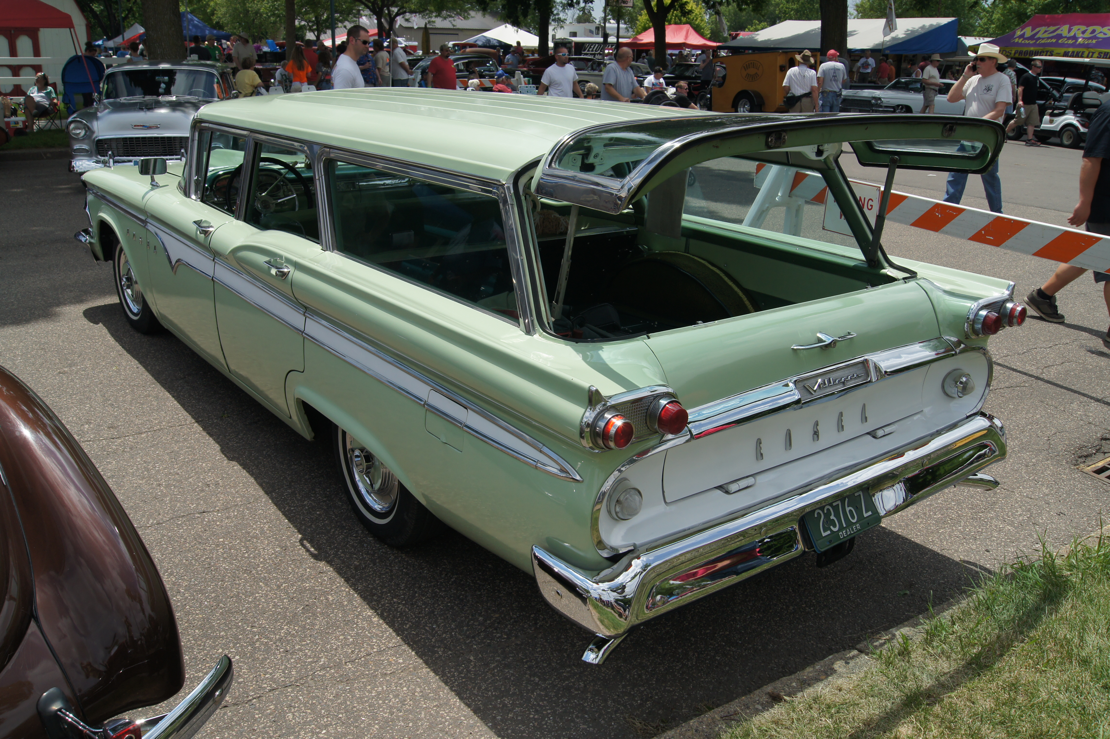 MSRA “BACK TO THE 50′s” 42nd Annual June 19-21, 2015 State Fairgrounds St. Paul Minnesota Click here for more car pictures at my Flickr site.